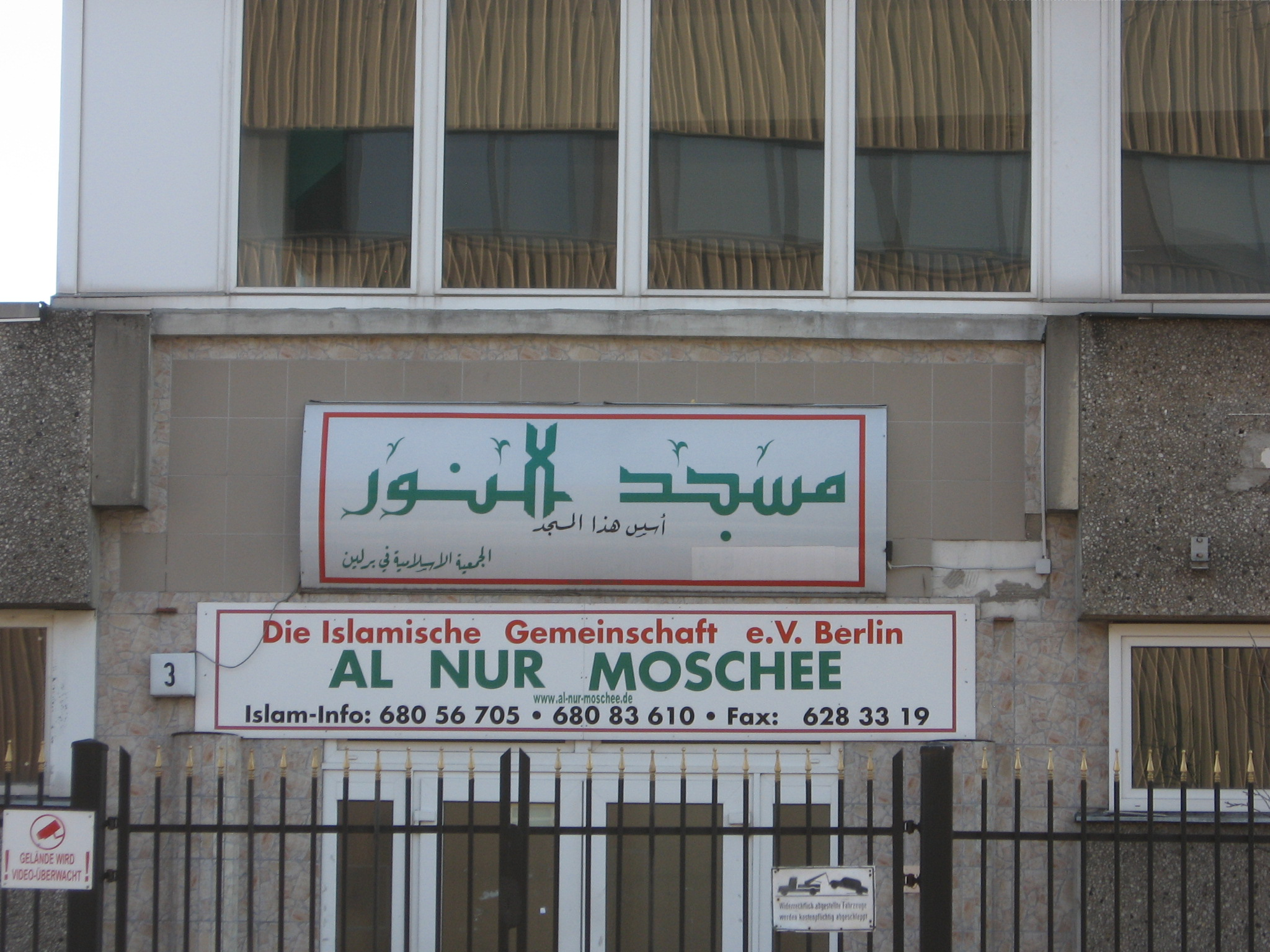 Schild der Al-Nur-Moschee.